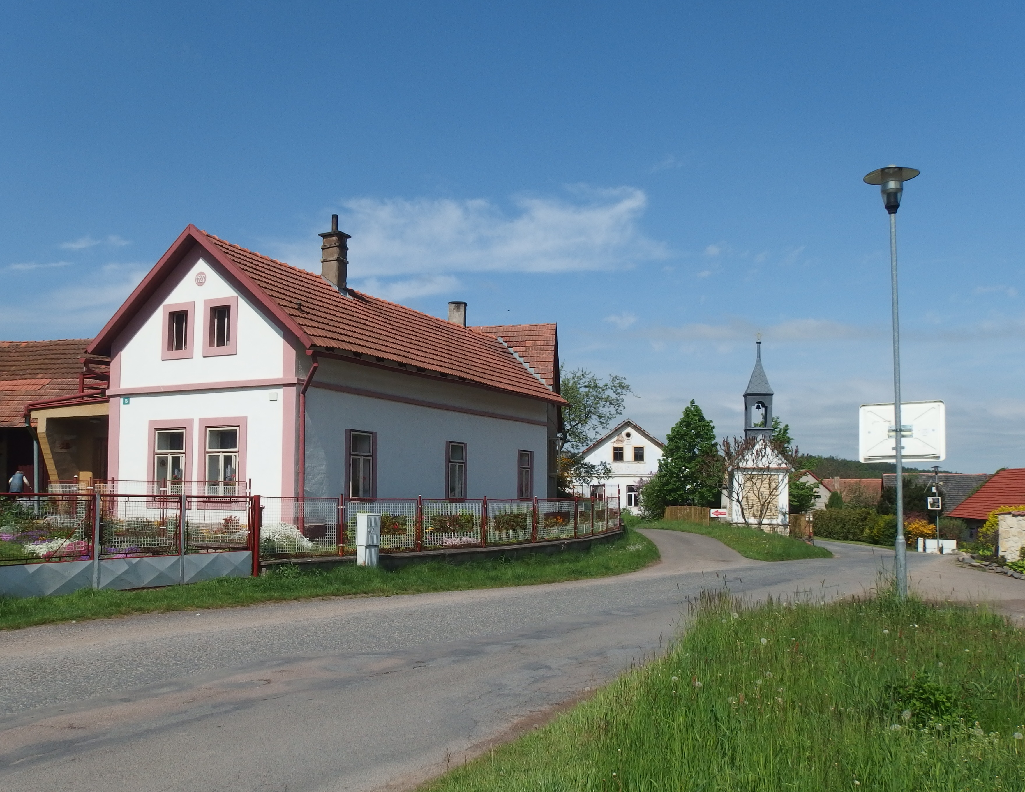 Luže, Chrudim District, Czech Republic, part Brdo.